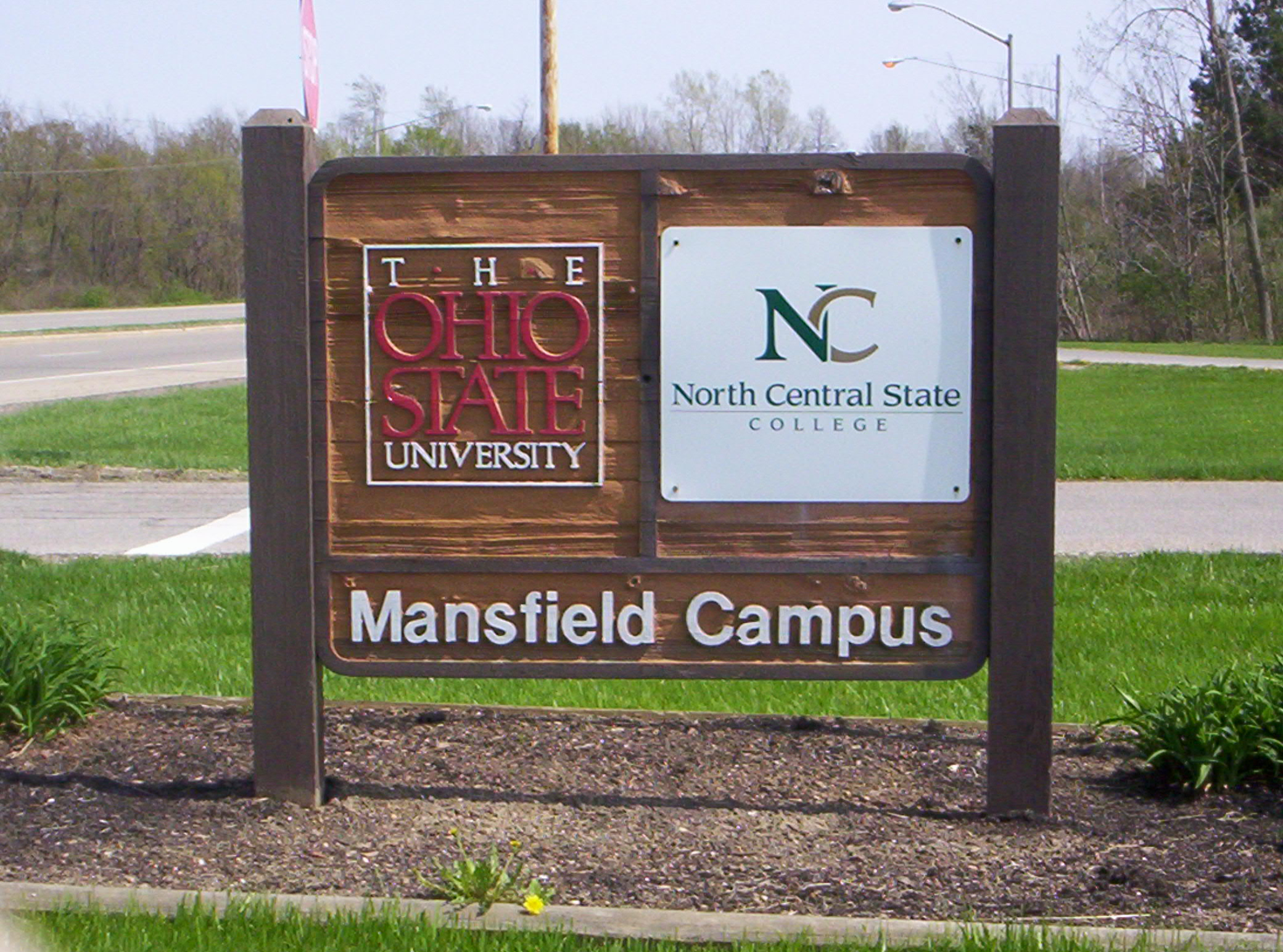 A view of the Mansfield Campus welcome sign at The Ohio State University and North Central State College site in Mansfield, Ohio.